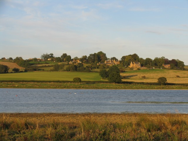 View towards Stoke Dry.